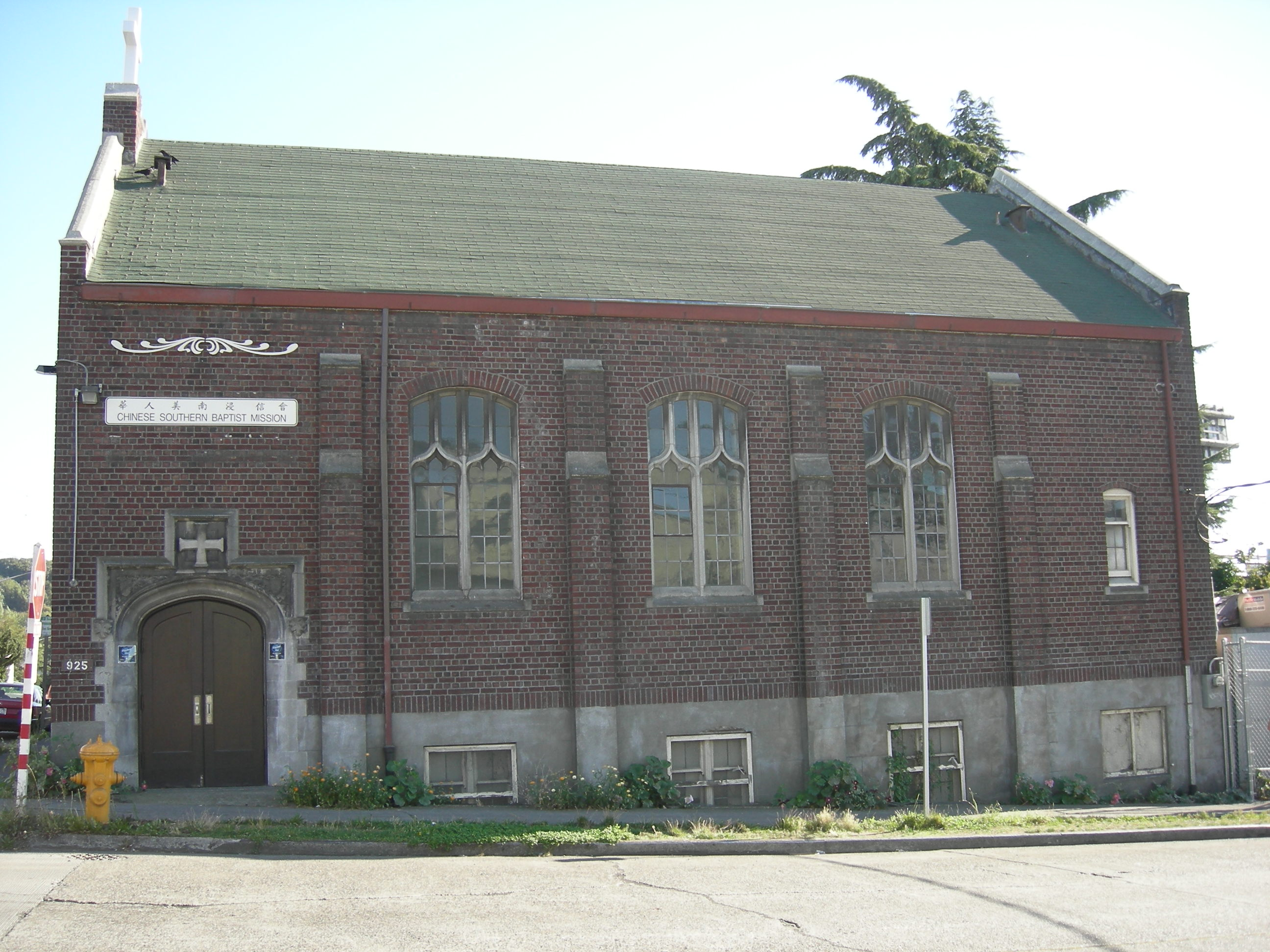 Chinese Southern Baptist Church (also known as Chinese Baptist Church), International District, Seattle, Washington, listed on the National Register of Historic Places (ID #86002094).